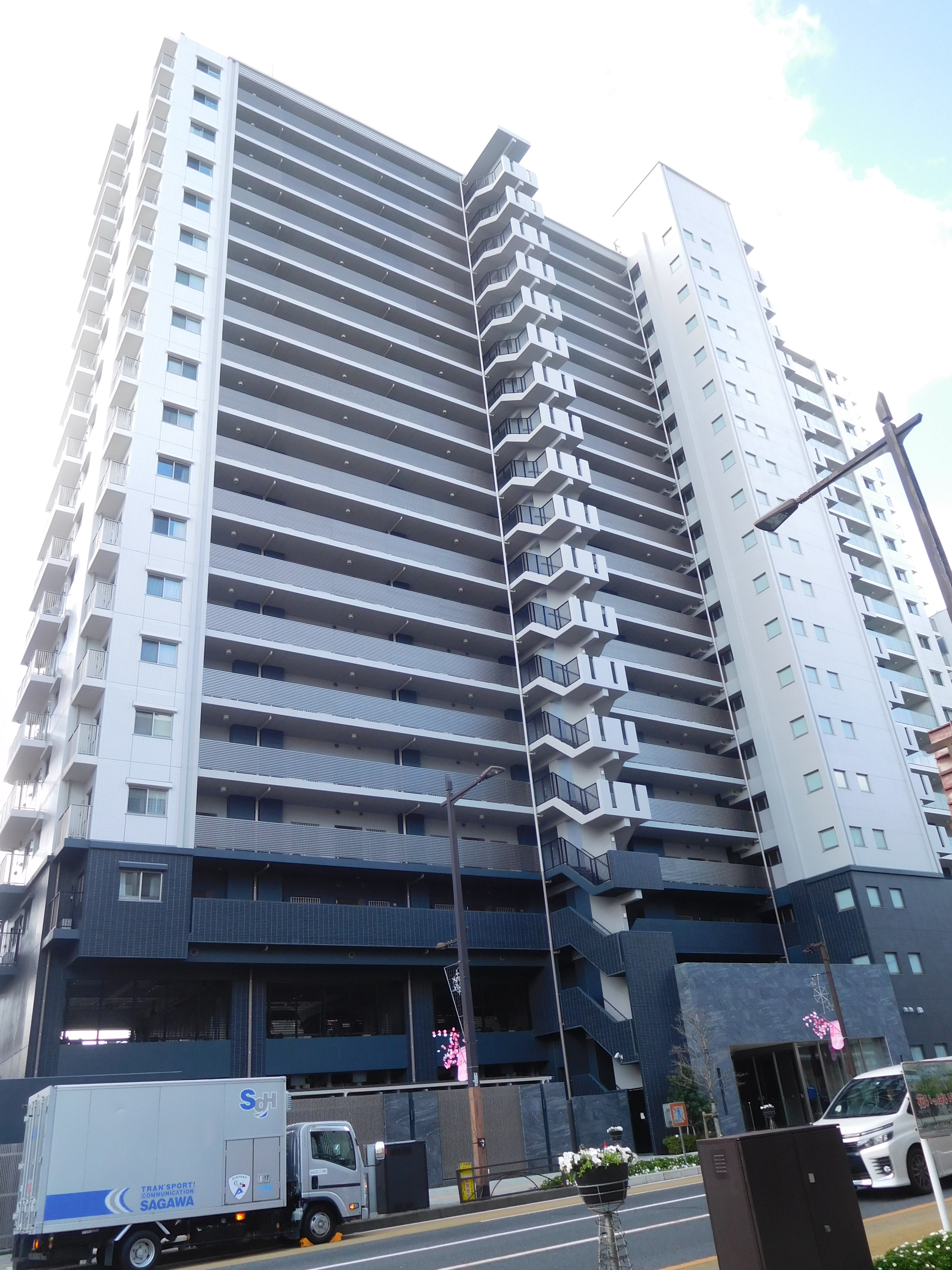 This is a condominium, Leben Mito THE PREMIERE in Mito, Ibaraki, Japan.